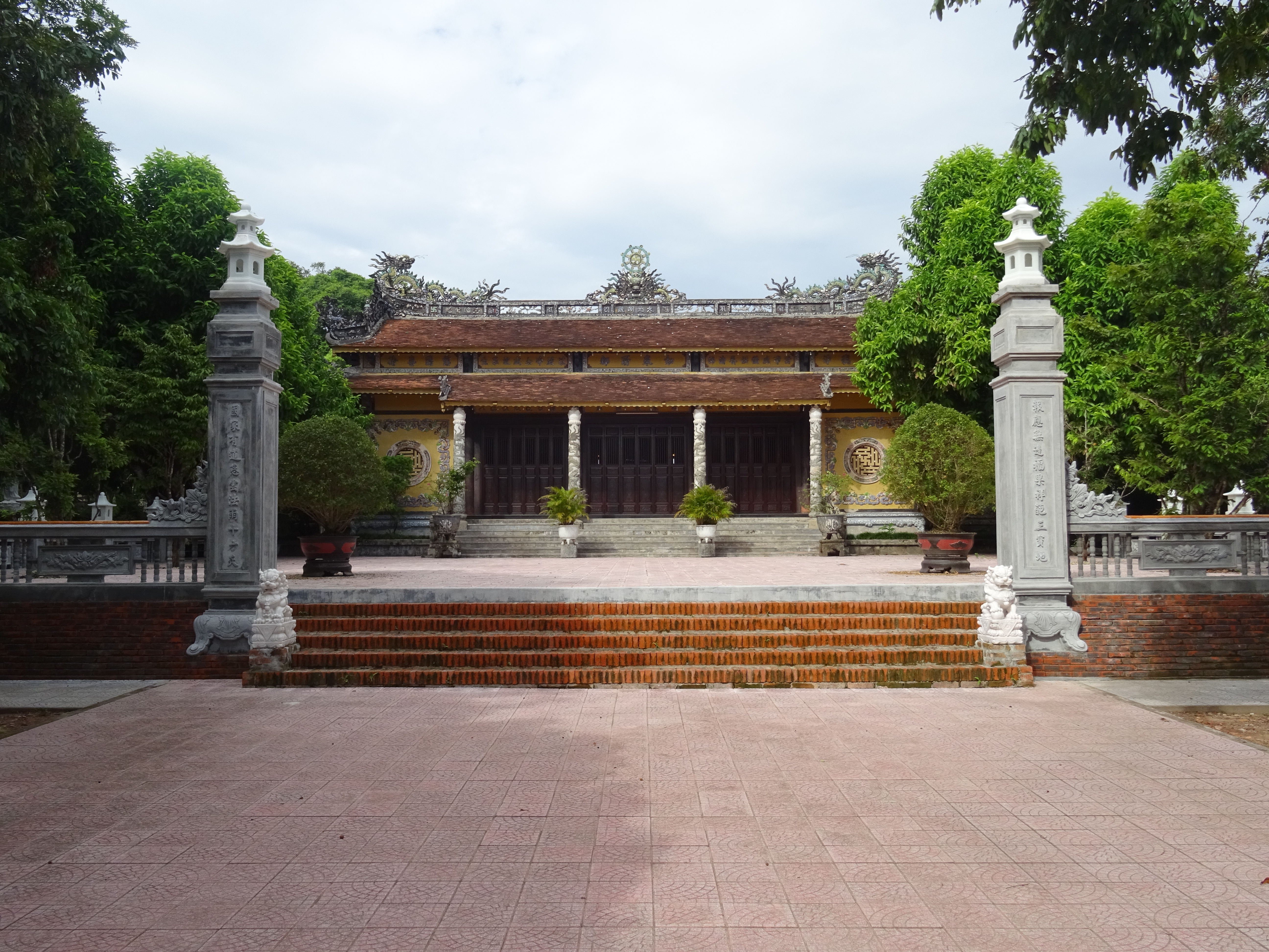 The Báo Quốc Pagoda in Huế.